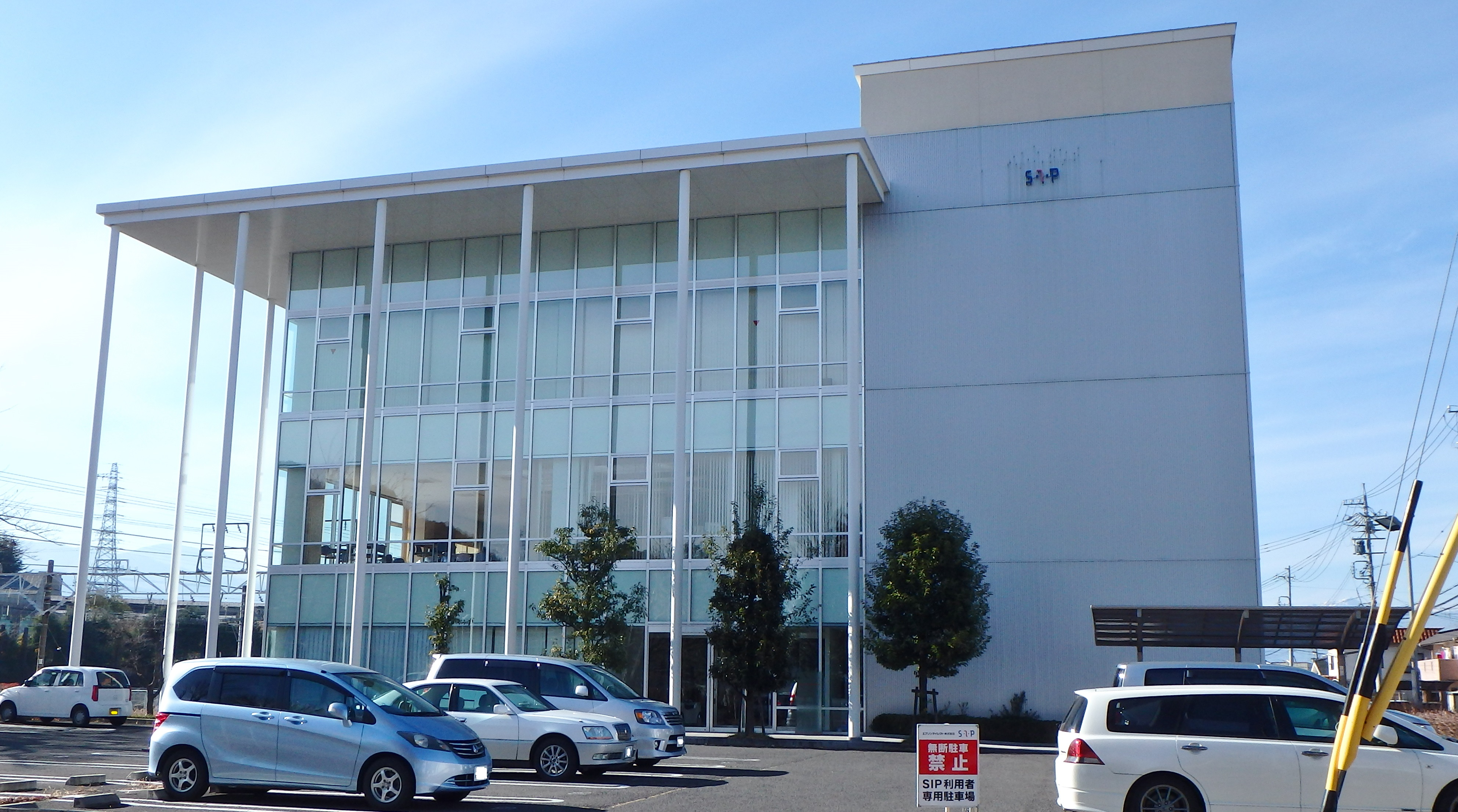 Shiojiri Incubation Plaza, Nagano prefecture,Japan